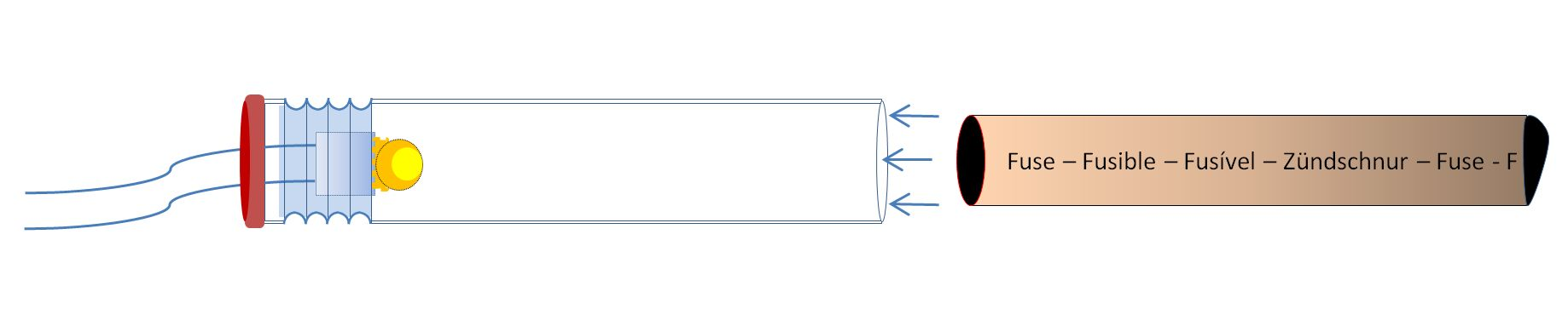 Schematics of an electrical igniter connecting to a fuse (firing blasting cord).